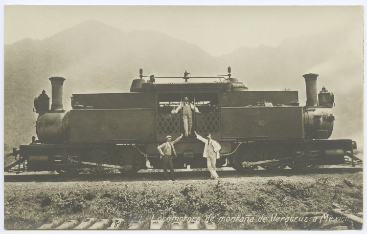 Title: Locomotora de montana de Veracruz: a Mexico. Fairlie locomotive. Creator: Waite, C. B. (Charles Burlingame) Date: 1900-1905 Part Of: Mexico Physical Description: 1 photographic print: gelatin silver; 20.2 x 12.6 cm. File: ag1983_0281_0124_locomotora_montana_opt.jpg Rights: Please cite Southern Methodist University, Central University Libraries, DeGolyer Library when using this image file. A high-quality version of this file may be obtained for a fee by contacting . For more information, see: View Mexico: Photographs, Manuscripts, and Imprints